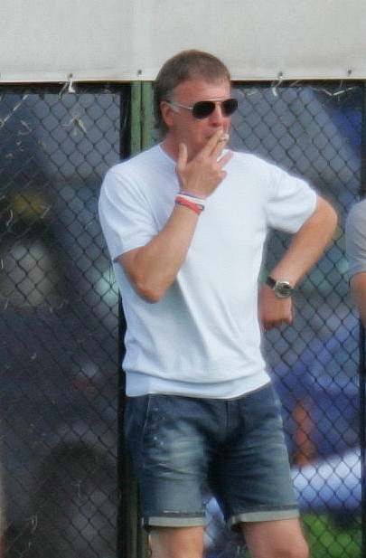 Nasko Petkov Sirakov (Bulgarian: Наско Петков Сираков; born 26 April 1962) is a retired Bulgarian footballer who played mainly as a striker. Part of the Bulgarian team at the 1994 FIFA World Cup as it finished fourth, he was one of the most important footballers in the country in the 1980s/1990s, being a legend at Levski Sofia, a club he represented in four different spells.